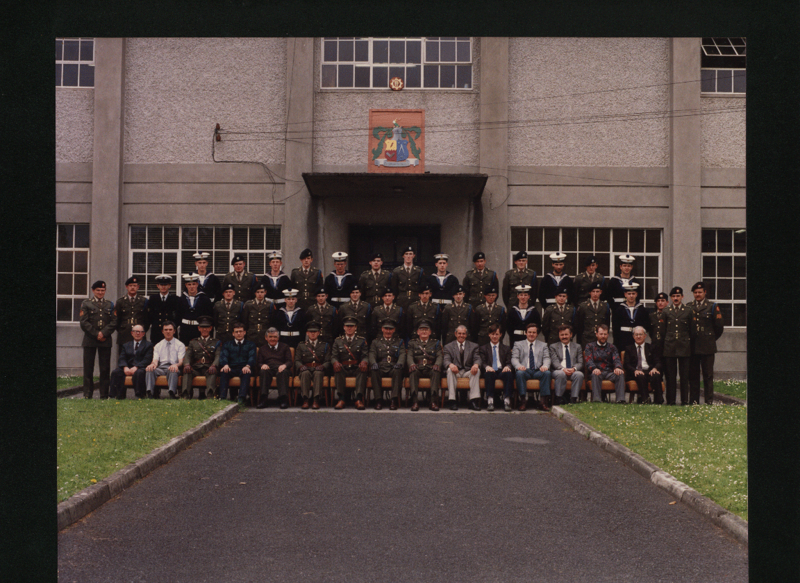 32nd Platoon (Mixed Army and Navy), Irish Army Apprentice School